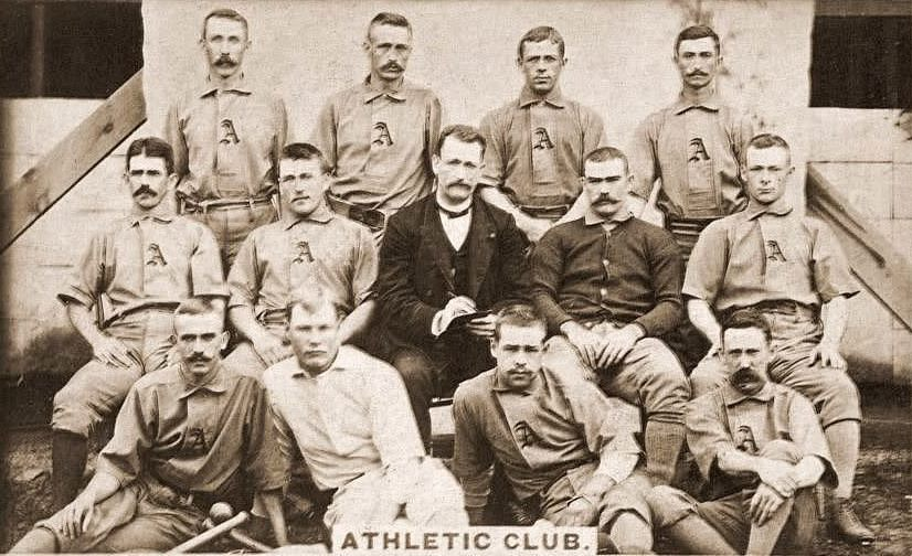 1887 Philadelphia Athletics Top Row, L-R: Fred Mann (CF), Harry Stovey (LF/CF), Wilbert Robinson (C), Tom Poorman (RF) Middle Row, L-R: Chippy McGarr (SS), Denny Lyons (3B), Charlie Mason (Mgr.), Henry Larkin (LF), Dan Bierbauer (2B) Bottom Row, L-R: Gus Weyhing (P), Jocko Milligan (1B), George Townsend (C), Bobby Mathews (P)